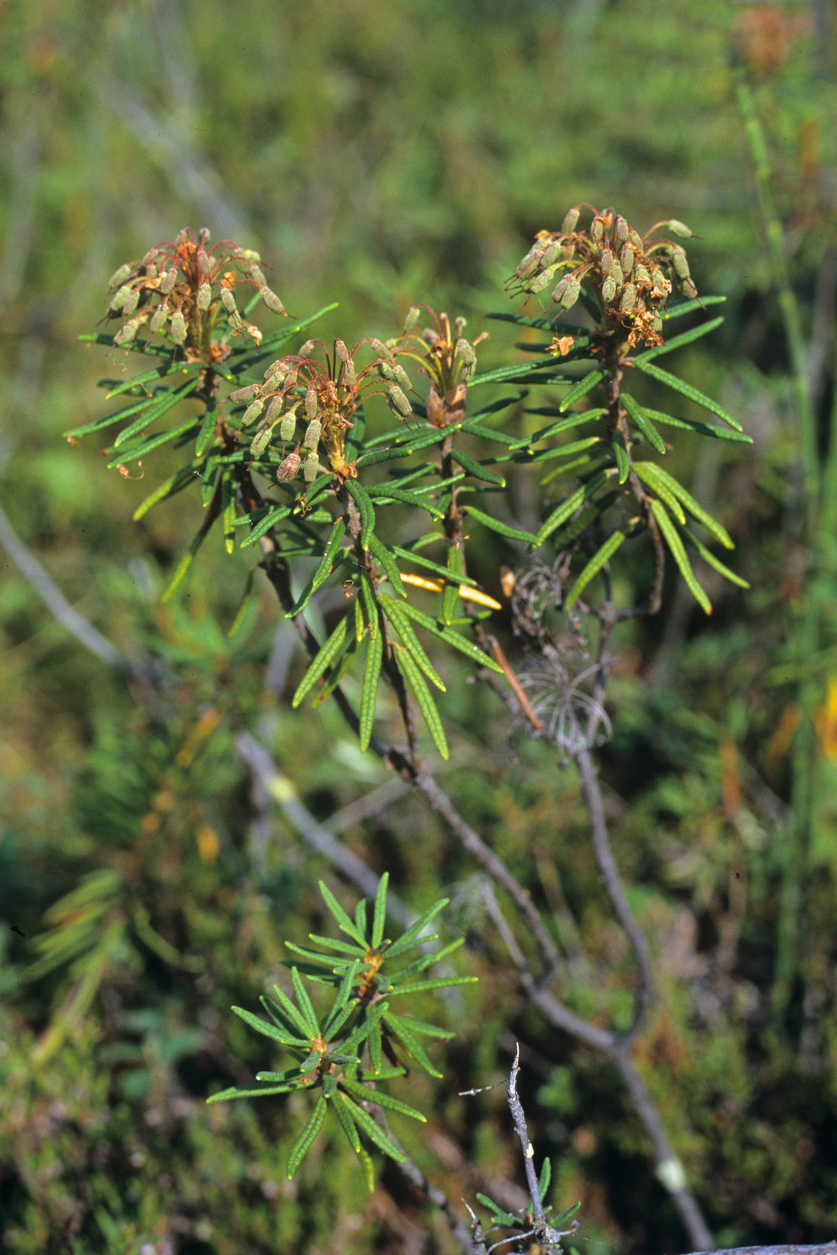 Ledum palustre L. - with fruits. Russia, Karelia